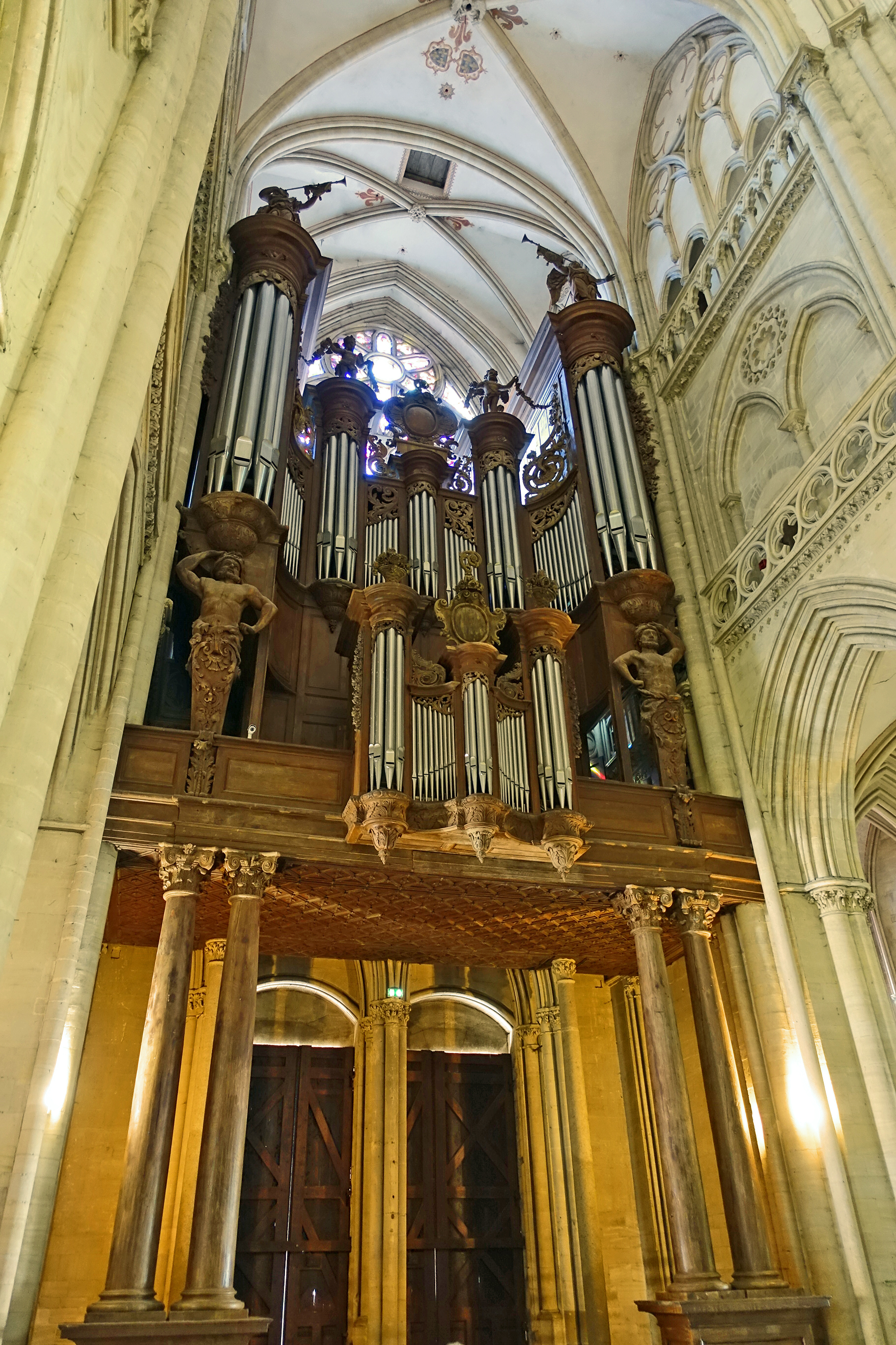 Pipe organ of Cathédrale Notre-Dame de Coutances